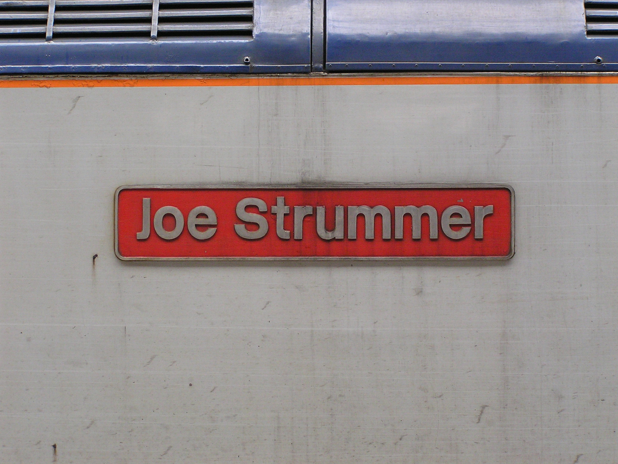 Class 47 Brush Type 4 47828 'Joe Strummer' nameplate, Darlington Bank Top 29.06.2009 P6290002